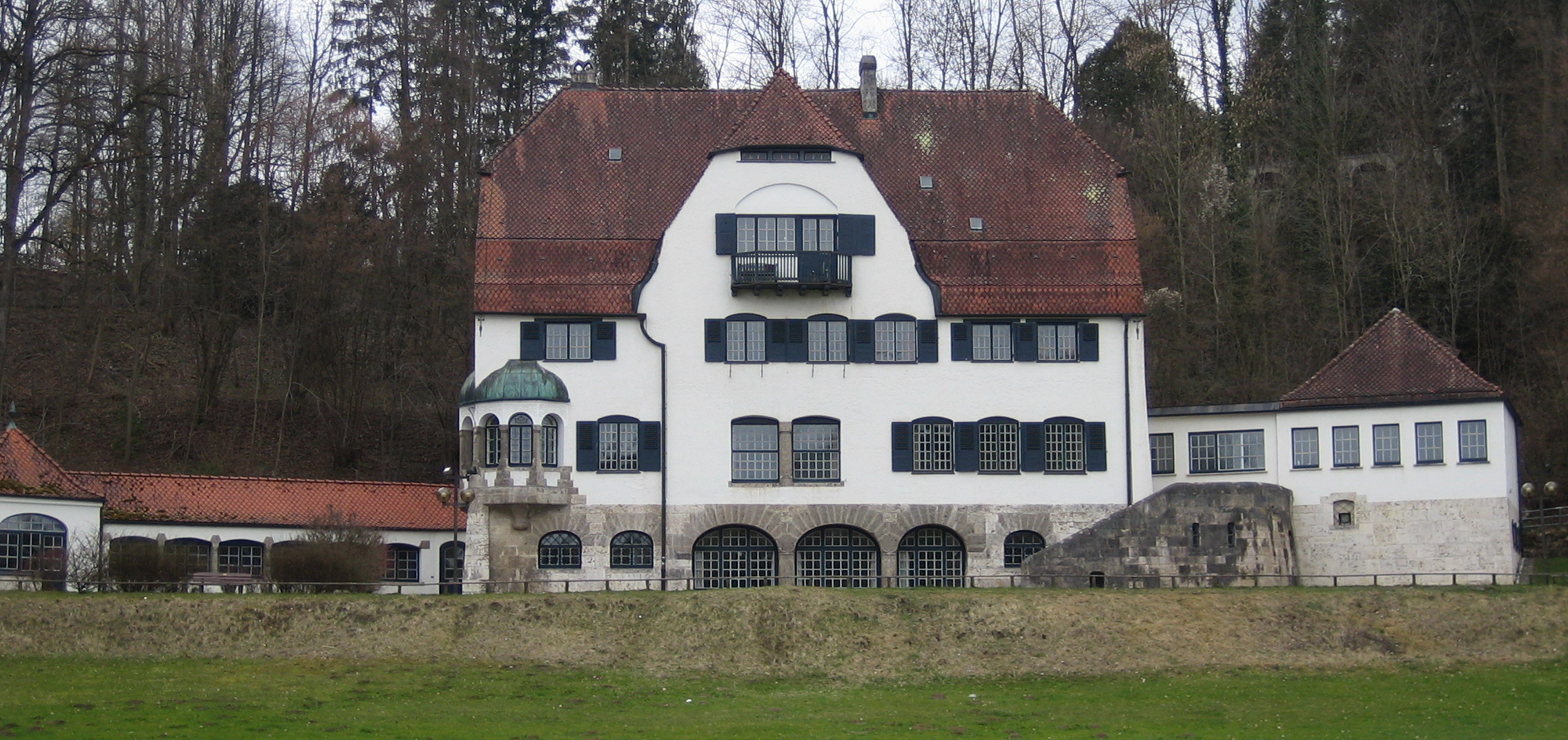 Lindenhof manison in Herrlingen (near Ulm, Germany)